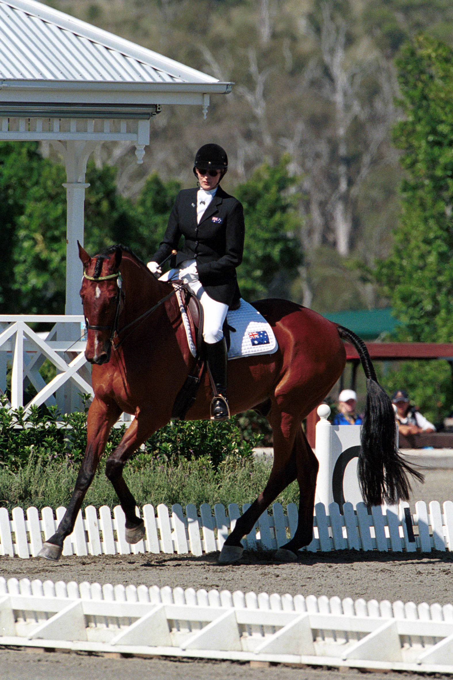 Action shot of Australian equestrian Sue-Ellen Lovett during dressage at the 2000 Sydney Paralympic Games